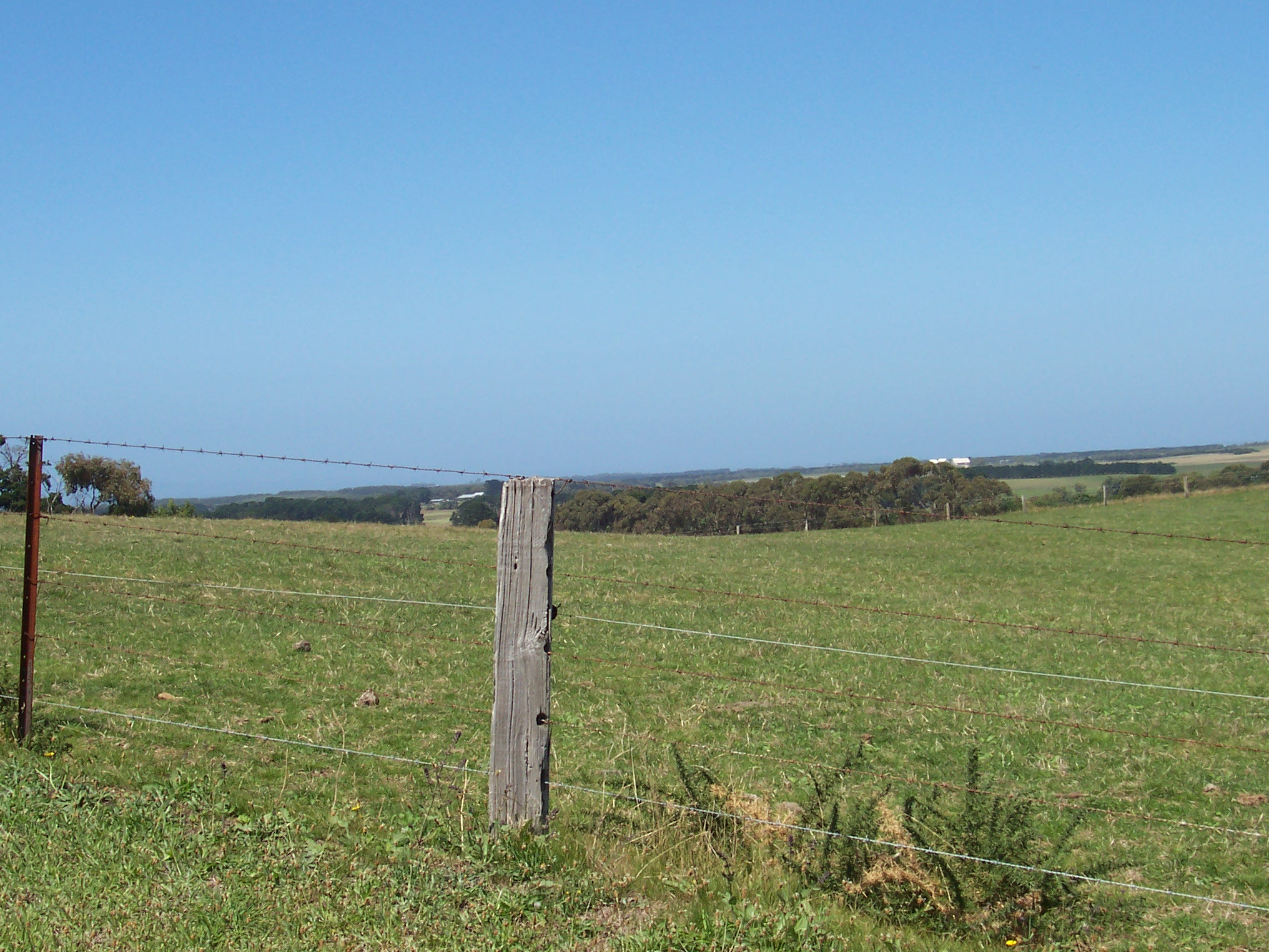 Picture of scenery viewed around Portarlington, Victoria.